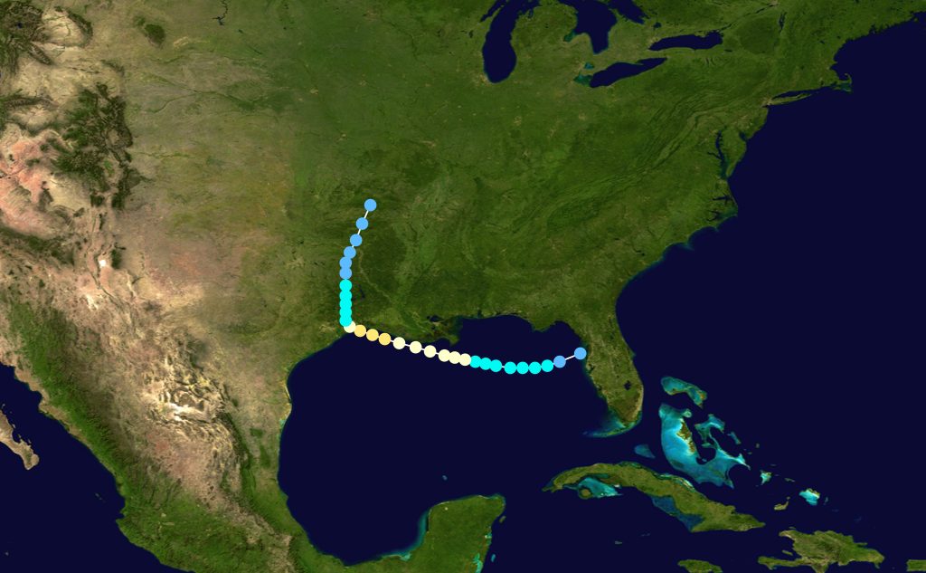 1940 Atlantic hurricane 2 track. Uses the color scheme from the Saffir-Simpson Hurricane Scale.